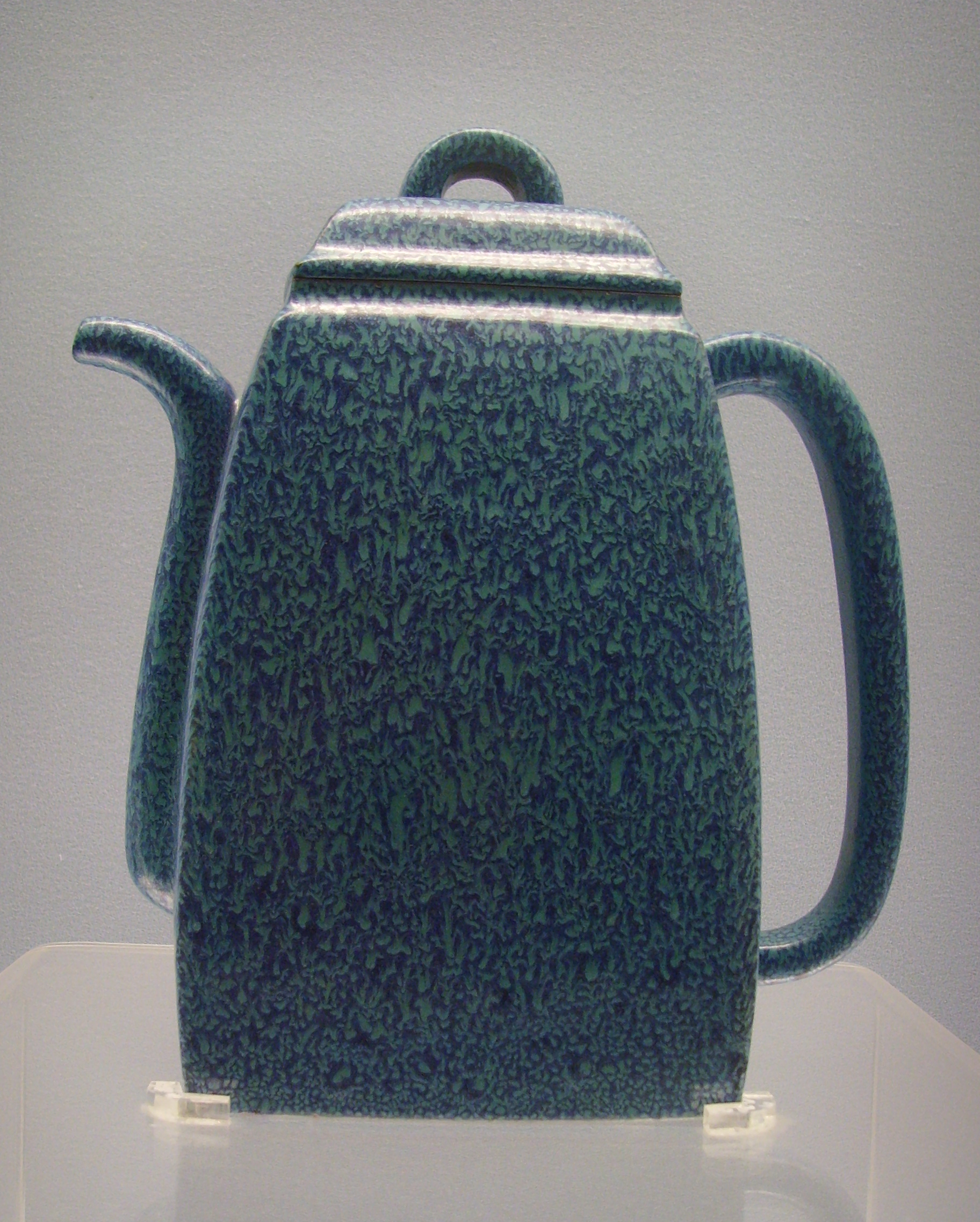 Shanghai Museum, Shanghai, P. R. of China: Glazed teapot, Yizing ware; Qianlong Reign (A. D. 1736-1795; official description), Qing Dynasty